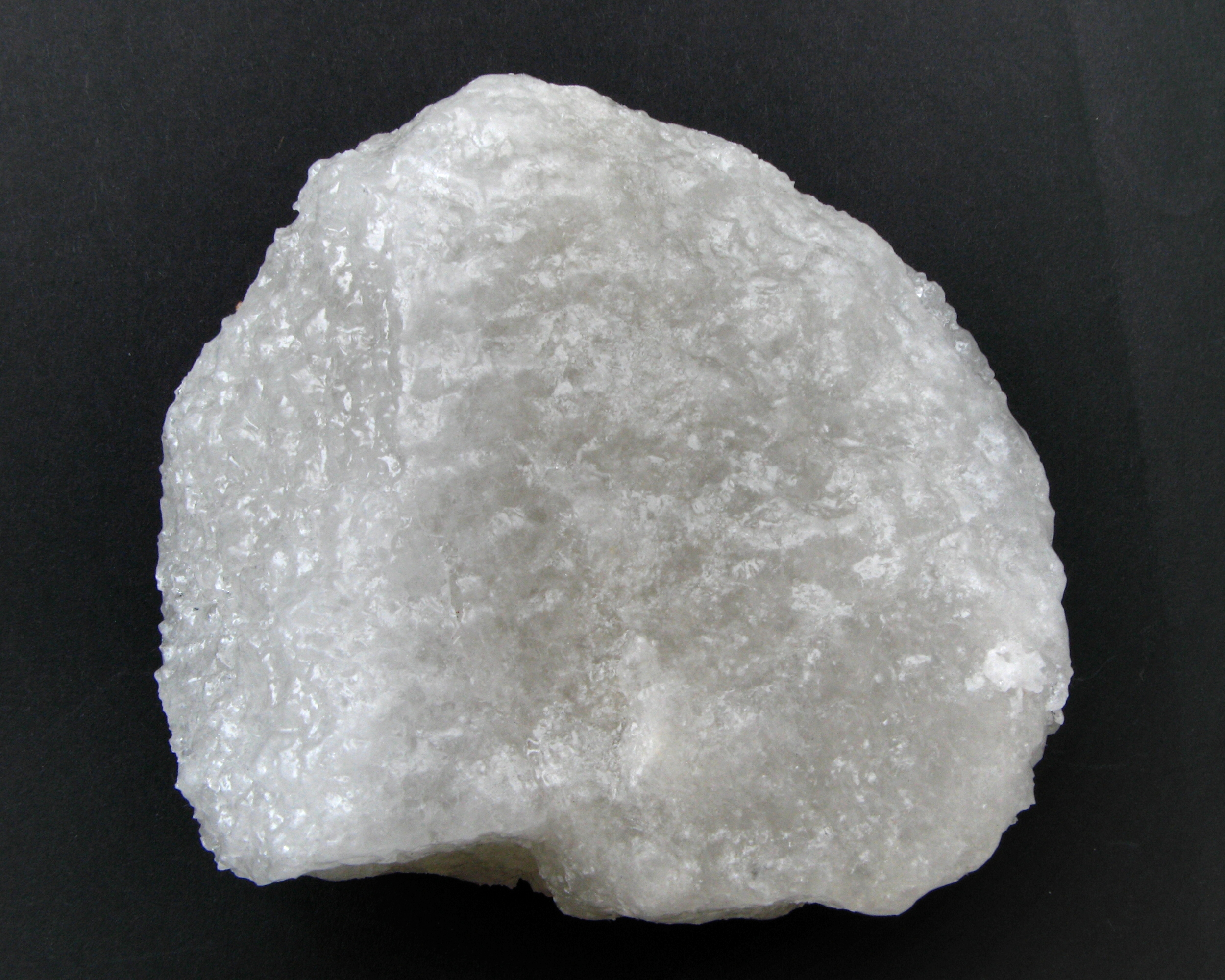 Cryolite